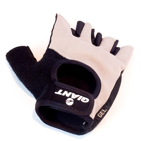 Giant bicycle glove